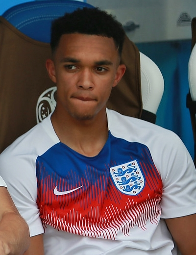 English footballer Trent Alexander-Arnold on 24 June 2018, during the 2018 FIFA World Cup group stage match between England and Panama.